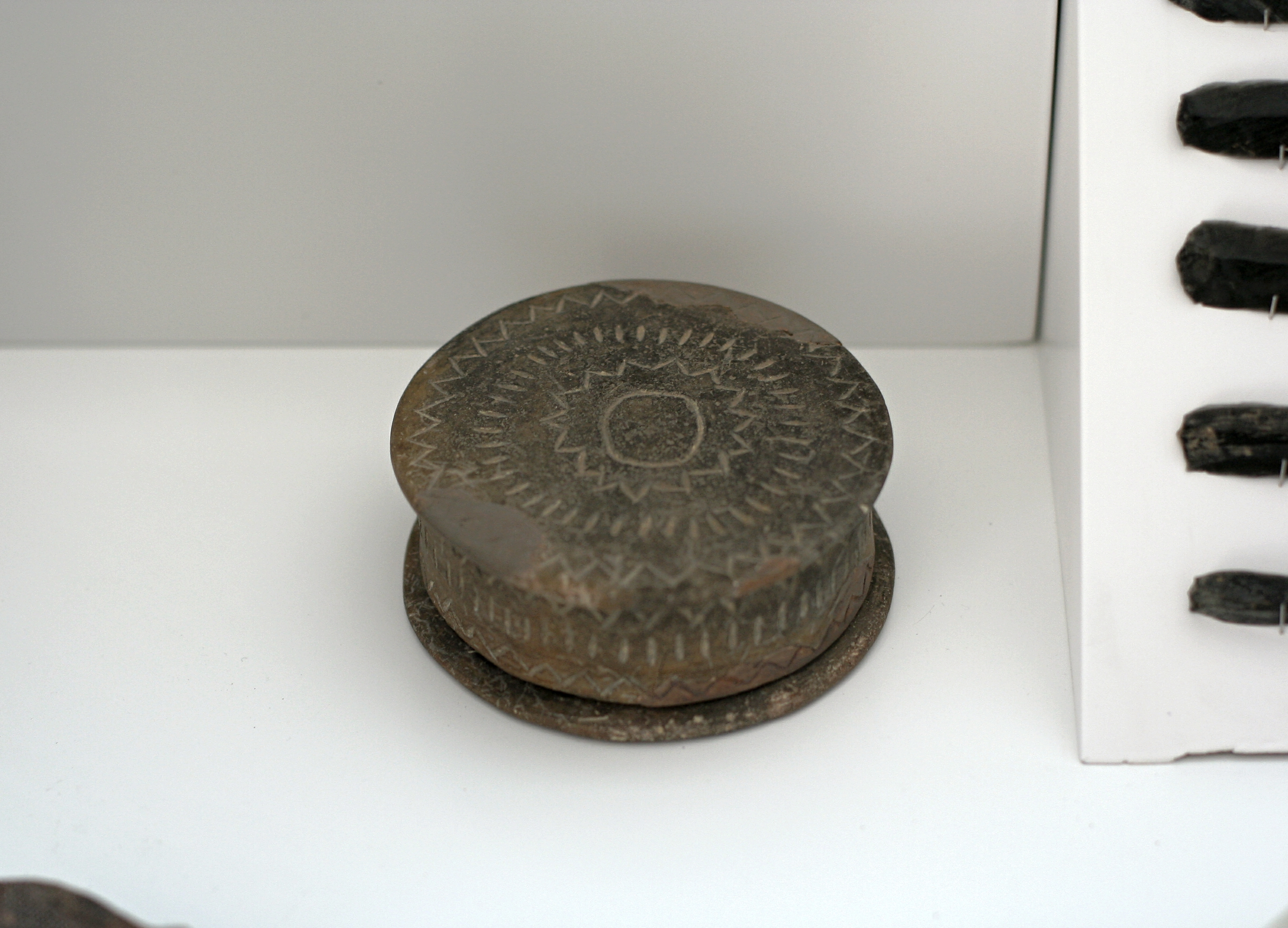 Clay pyxix, 18 cm. Pottery supposedly imitating wood. The lid of the pyxis is decorated like Cycladic "Frying pans". From cemetery of Agia Photia, Sitia, EM I/II, 3000-2500 BC. Archaeological Museum of Agios Nikolaos.